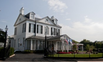 Quarters A, or more commonly referred to as the Tingey House, survived the burning of the Washington Navy Yard 200 years ago in 1814 only to be plundered by the neighbors. It is now the home of the Chief of Naval Operations. Photo by Mass Communication Specialist 2nd Class Eric Lockwood